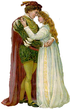 Mass-produced colour photolithography on paper for Toy Theatre; Romeo and Juliet (background and surroundings removed)